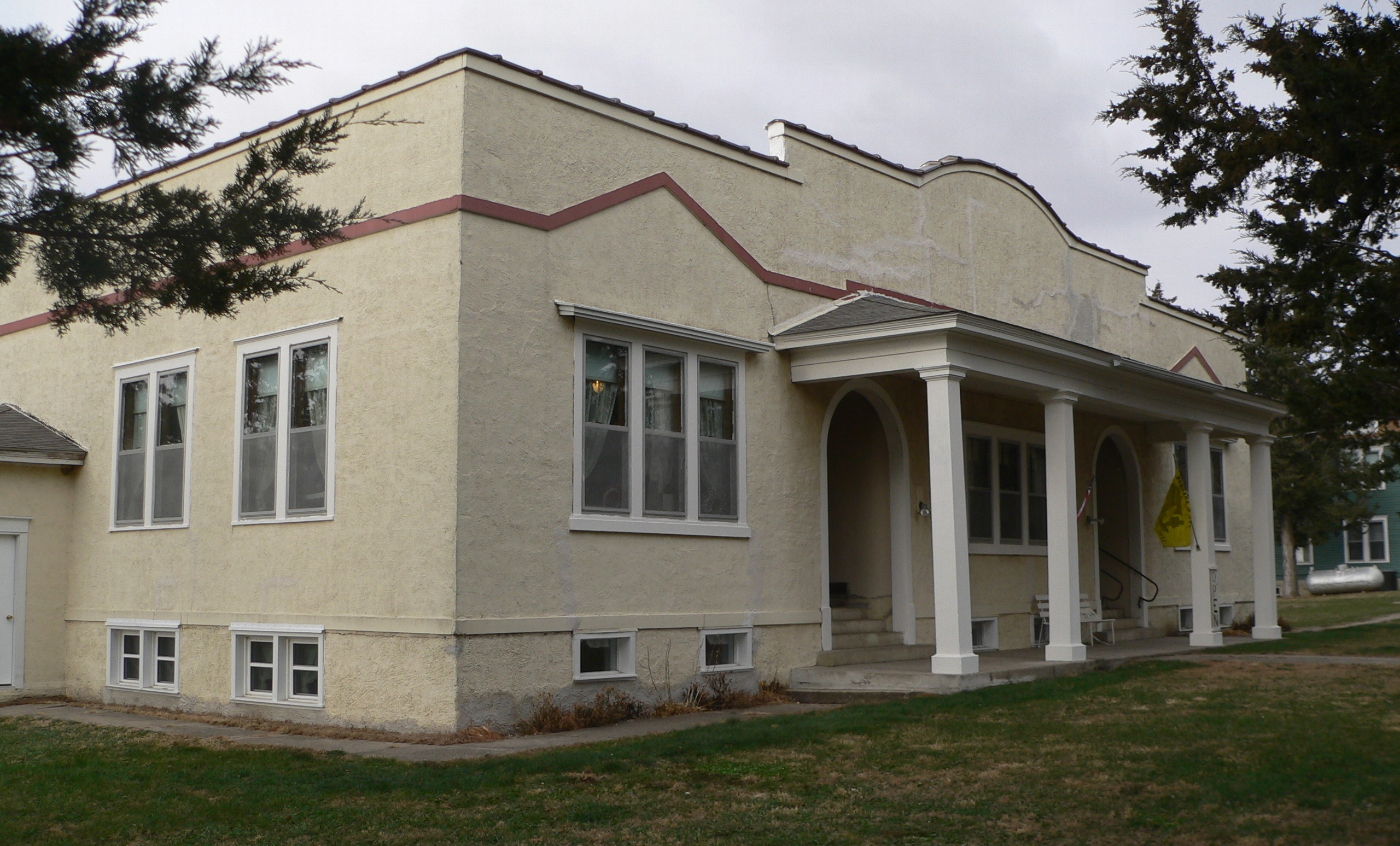 St. James Marketplace, formerly Saints Philip and James Parochial School, located near Wynot, Nebraska; seen from the southeast. The Mission Revival school was built in 1919. It is listed in the National Register of Historic Places.